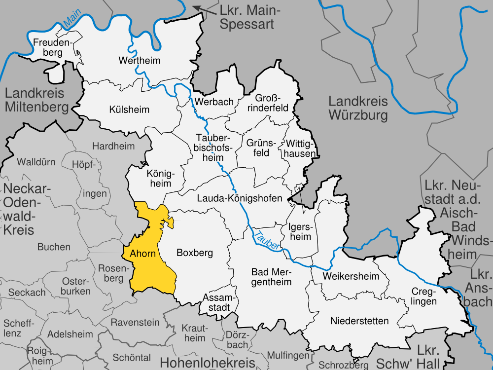 position of Ahorn within the Main-Tauber-Kreis, Baden-Württemberg, Germany